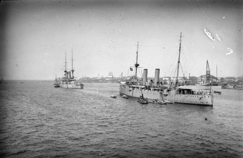 British Astraea class cruiser HMS FOX and the Russian battleship CHESMA at Archangel, 1919